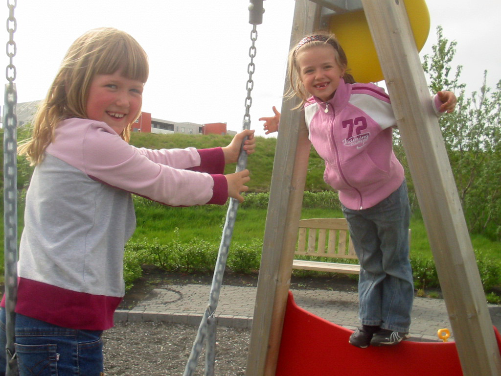 friendship